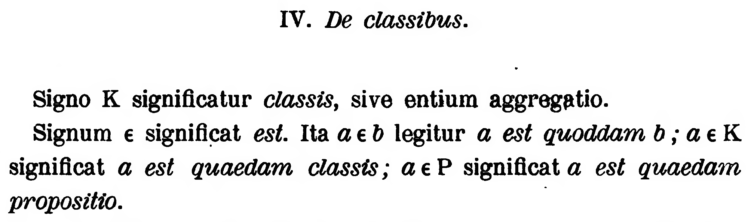 First usage of the symbol ∈ in mathematics.